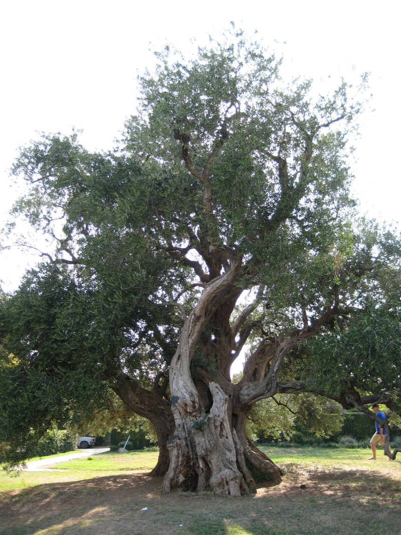 Ancient Olive tree in Kaštela, Croatia. This olive tree is over 1,500 years old, and is a Botanic Natural Monument.